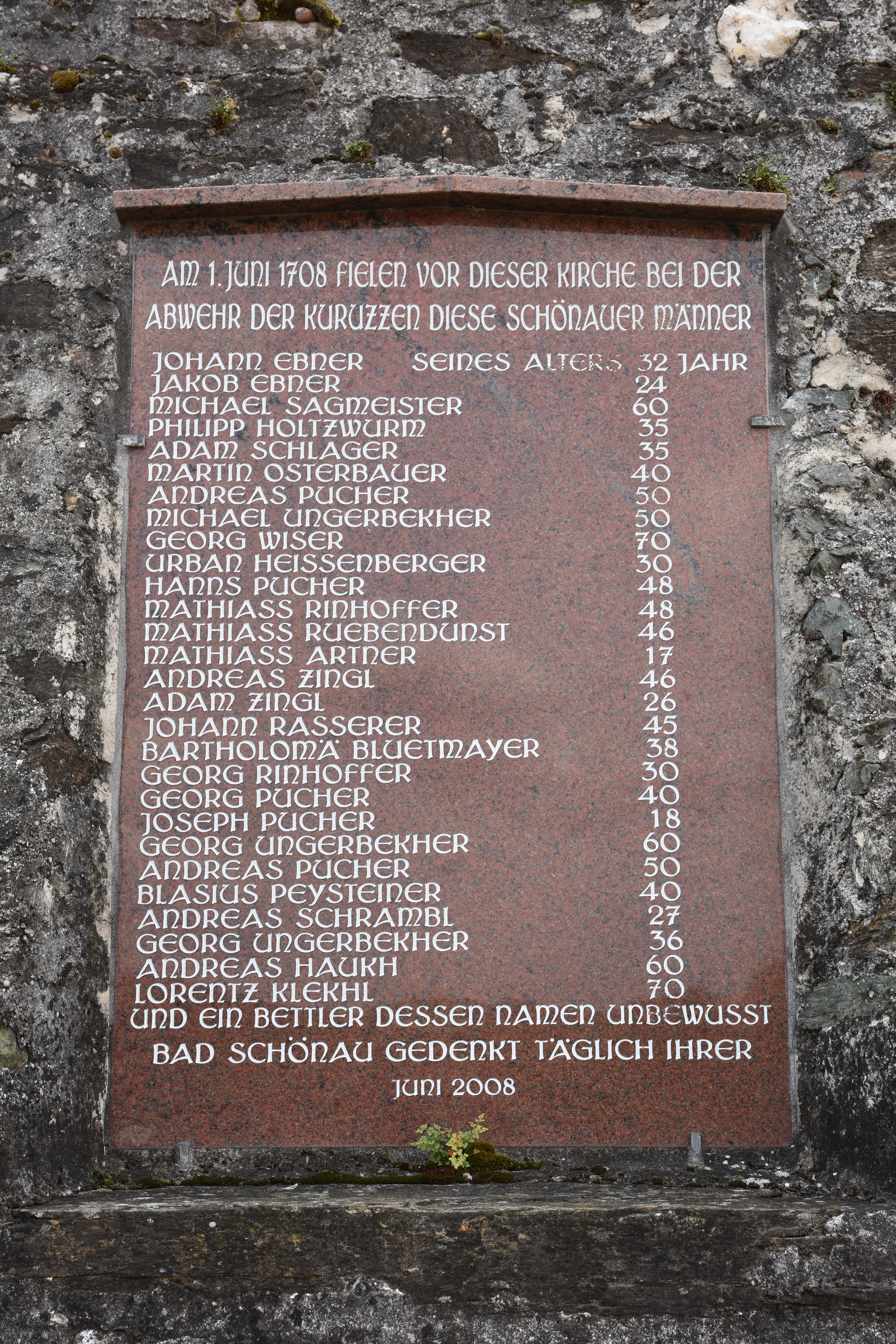 Memorial Church Bad Schönau